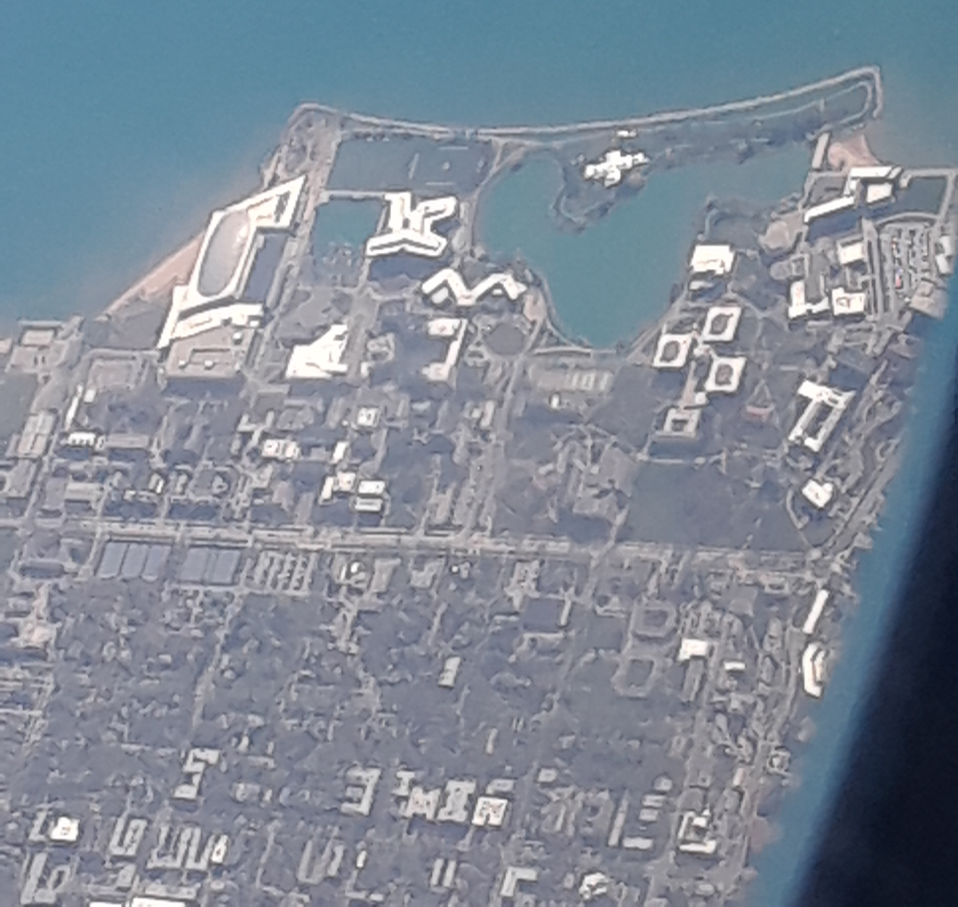 Aerial shot of Northwestern University